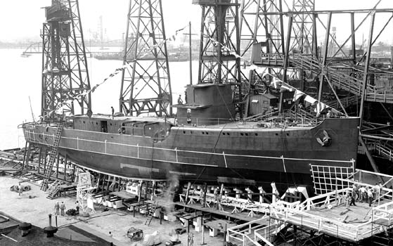 The U.S. Navy minesweeper USS Auk (AM-57) shortly before her launch at the Norfolk Naval Shipyard on 26 August 1941. In total, 95 Auk-class minesweepers were built.